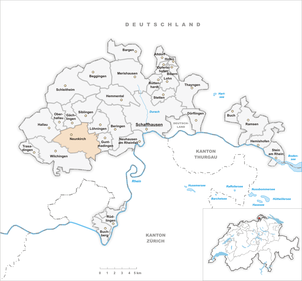 Municipality Neunkirch